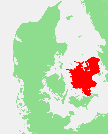 Locator map of Zealand